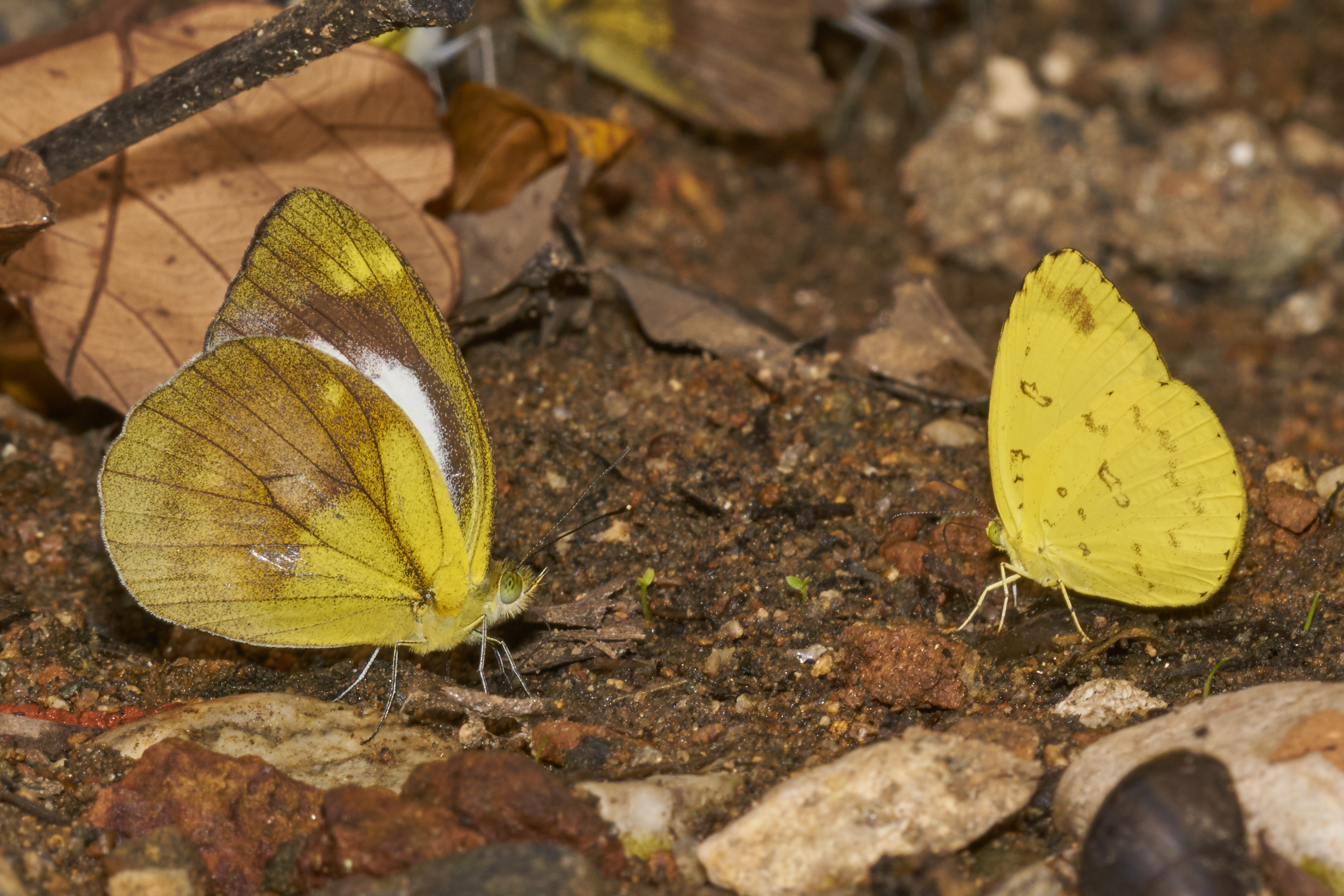 Cepora nadina (Lesser Gull) and Eurema blanda (Three-spot Grass Yellow) mud-puddling from the dry stream bed at Aralam Wildlife Sanctuary, Kerala, India.